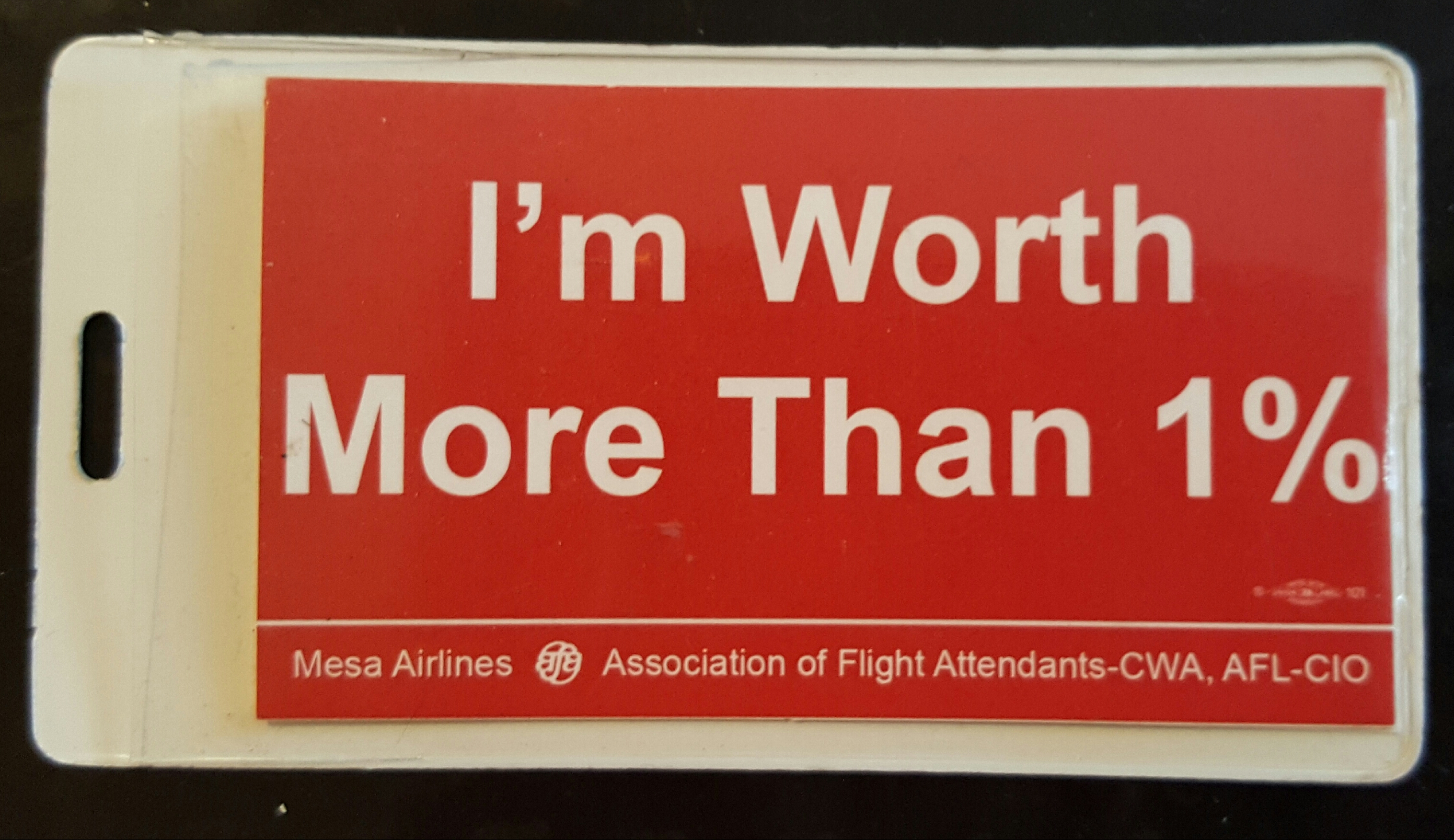 Bag tags handed to Mesa flight attendants in 2016 to signify unity to Jonathan G. Ornstein.